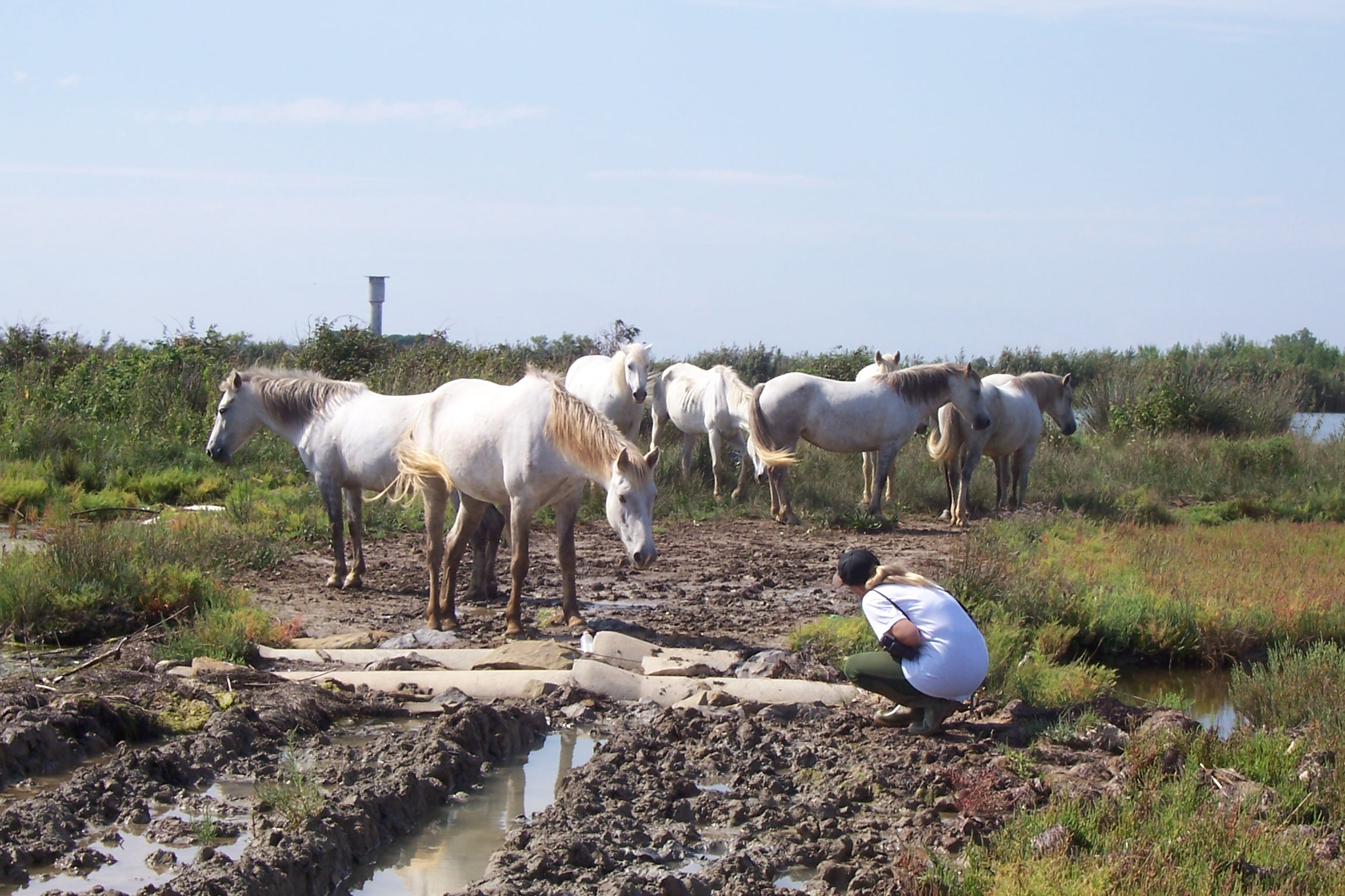 An expert horsewoman approaching a small herd of Camargue. Location: Isola della Cona, Staranzano, Italy. Step 1: She simulates browsing and she waits. See also Image:Camargue naturally approached 2.JPG